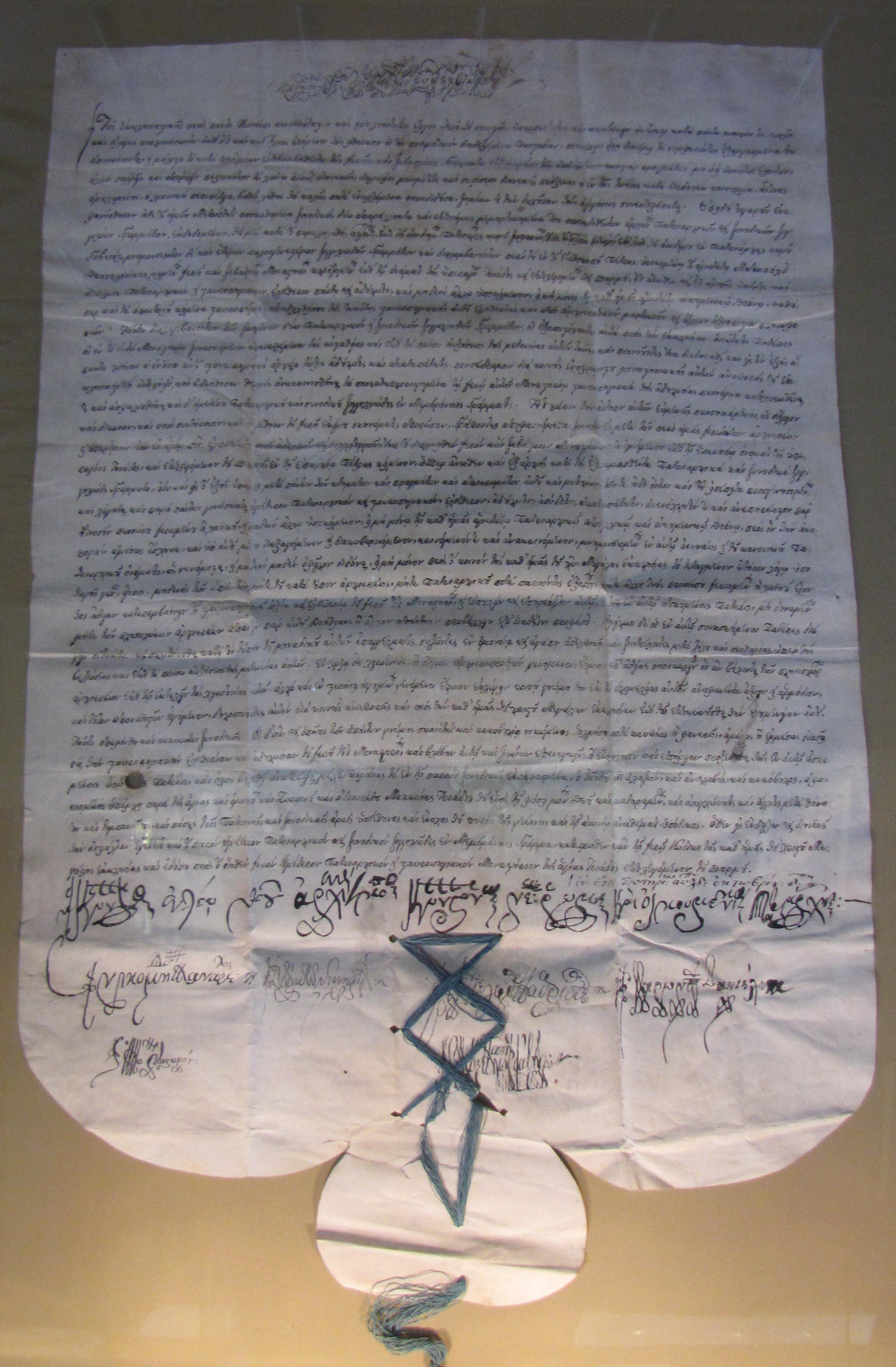 Document of Agia Triada Monastery